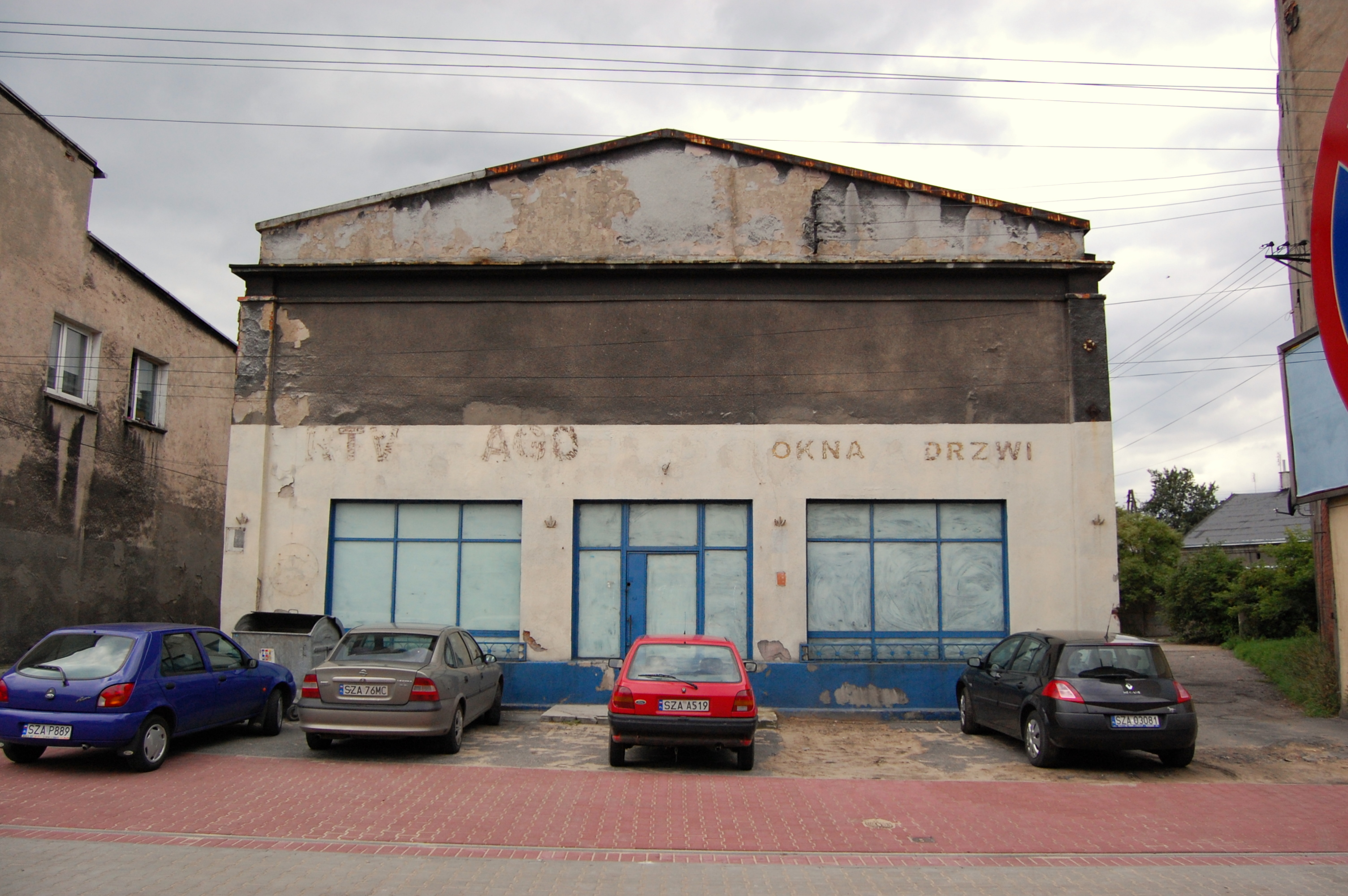 Synagogue in Zawiercie